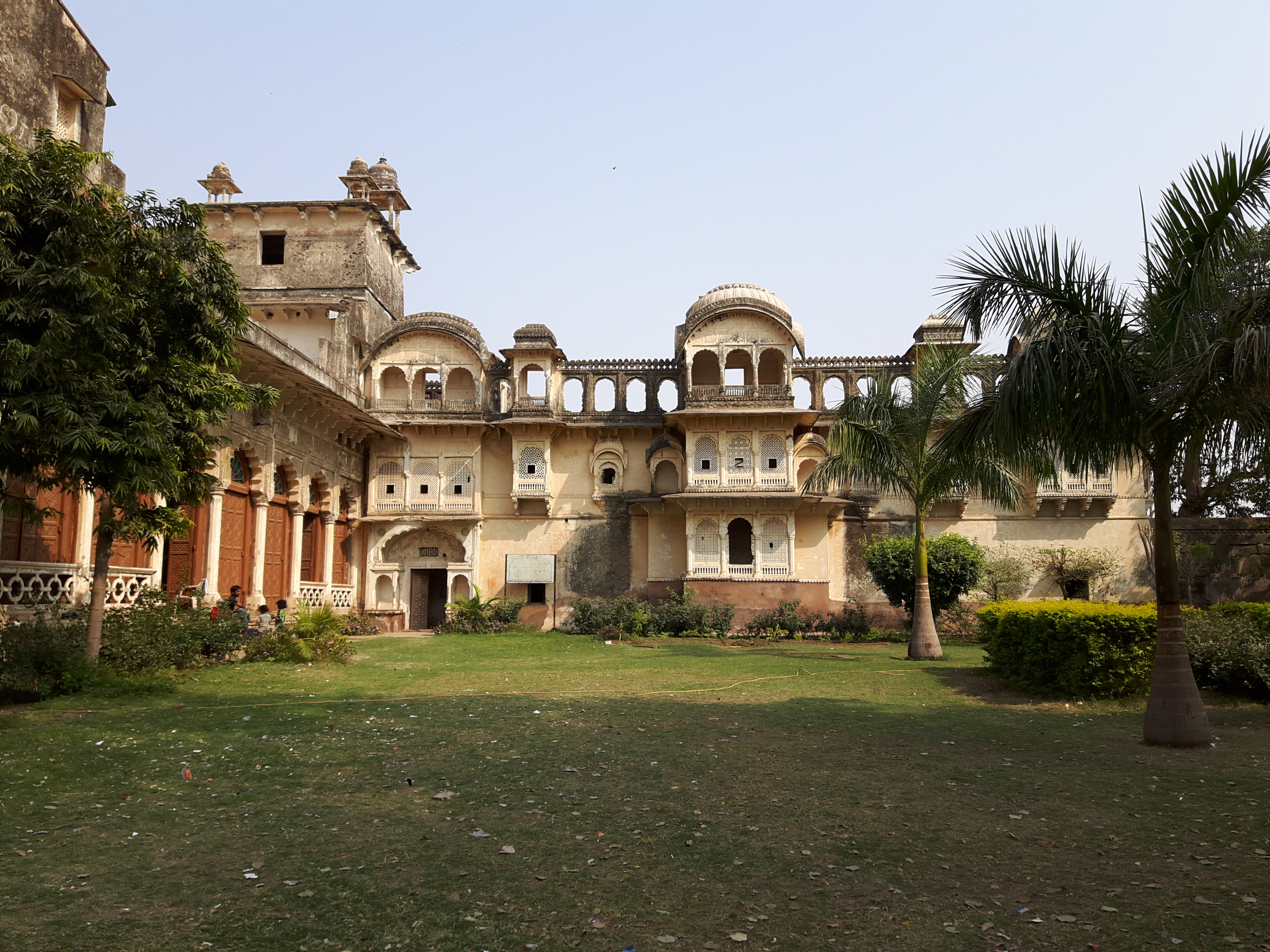 this image is Sheopur fort, Madhyapradesh